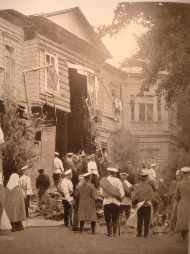 Result of the therrorist's bomb explosion of Stolypin's dacha at Aptekarsky Island at St. Petersburg in 1906.